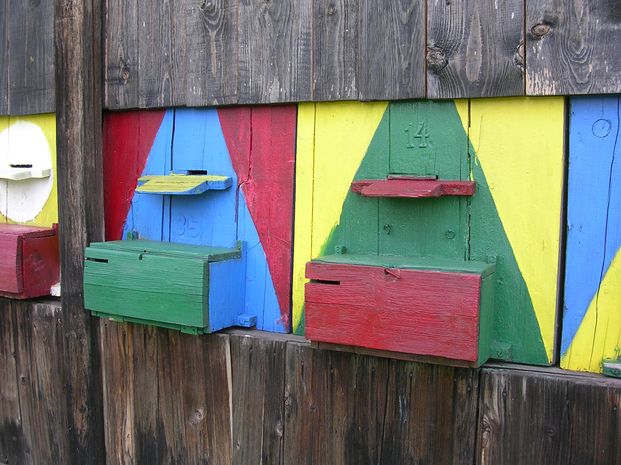 Vysoký Chlumec, Příbram District, Central Bohemian Region, the Czech Republic. Open air museum of village buildings. A beehive.